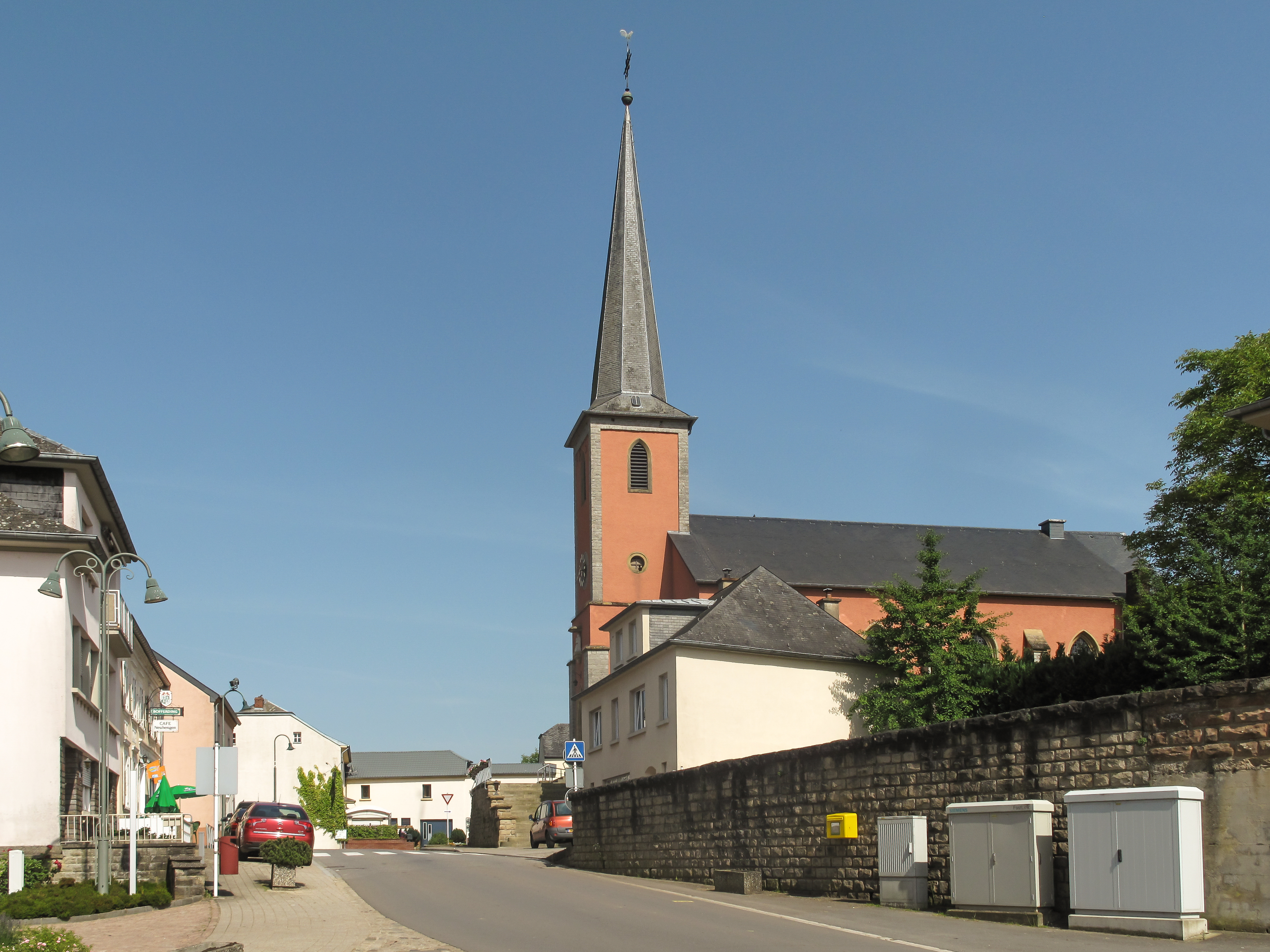 Boevange sur Attert, church (l'église Sainte Marie) in the street